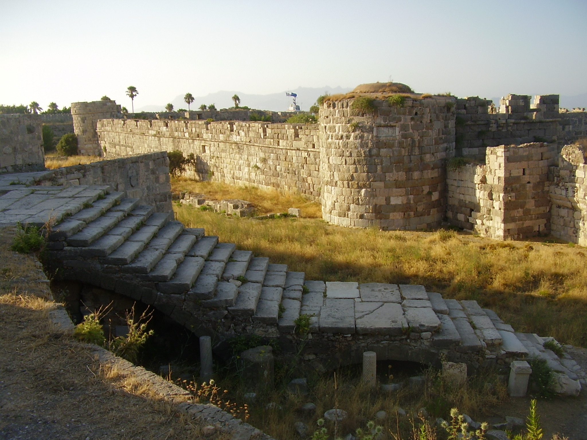 Inner enceint of the casle of neratzia, Kos Island